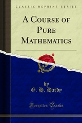 A Course of Pure Mathematics